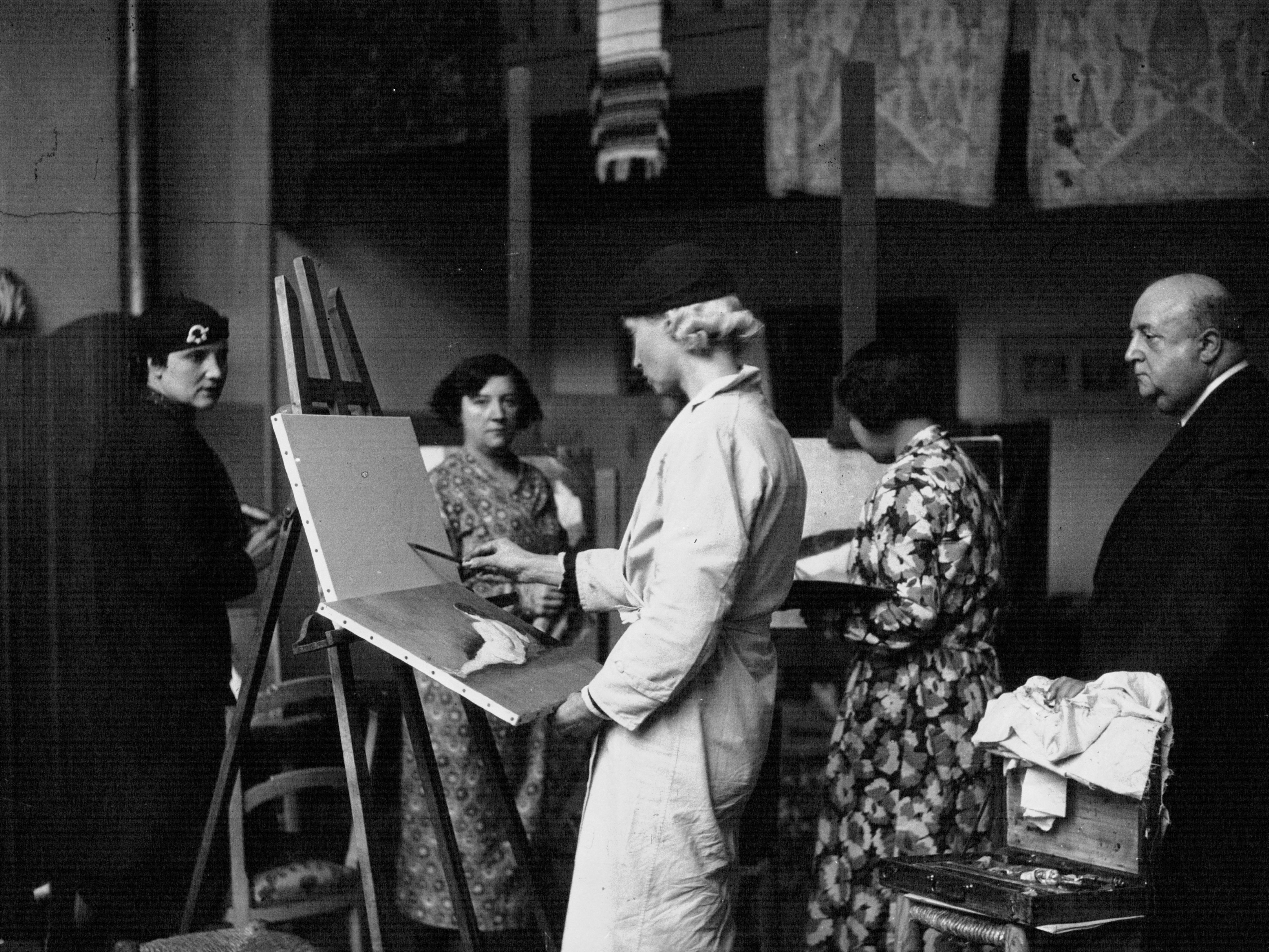 Jean Emile Laboureur (1877-1943) and his pupils. French painter and engraver.